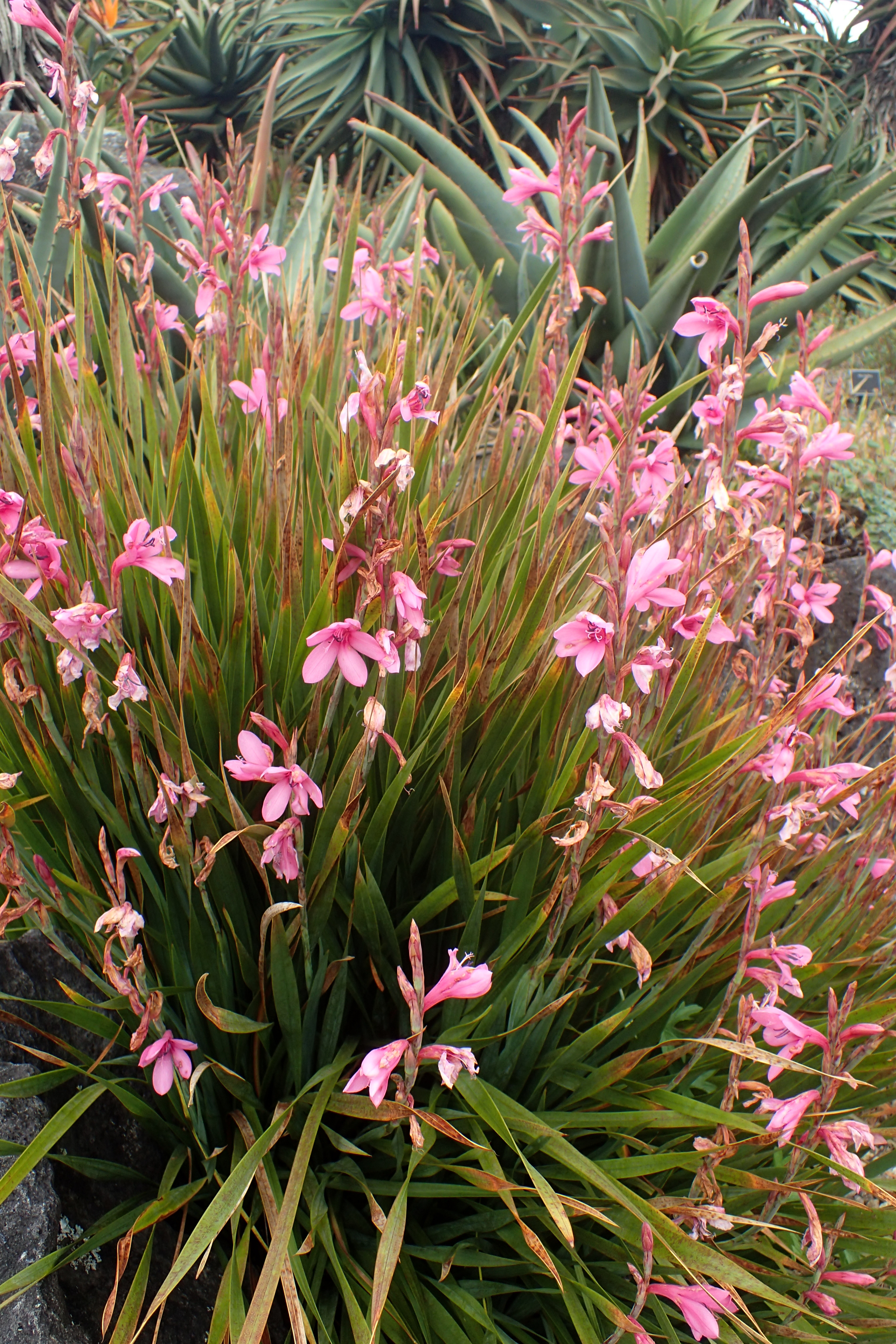 Watsonia sp. (not Watsonia stenosiphon) in Auckland Botanic Gardens